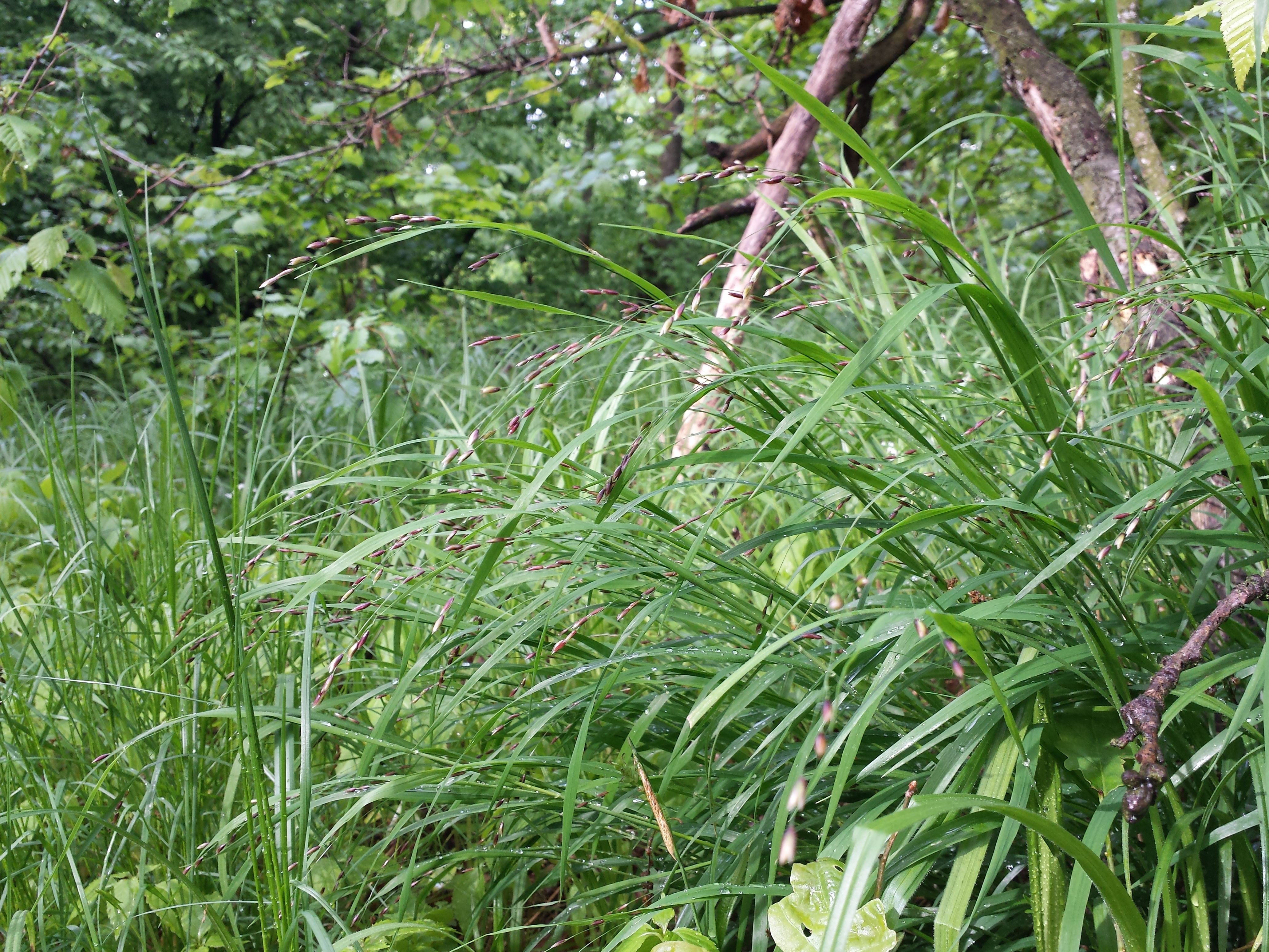 Habitus Taxonym: Melica uniflora ss Fischer et al. EfÖLS 2008 ISBN 978-3-85474-187-9 Location: Ernstbrunner Wald, district Korneuburg, Lower Austria - ca. 300 m a.s.l. Habitat: dedicious forest